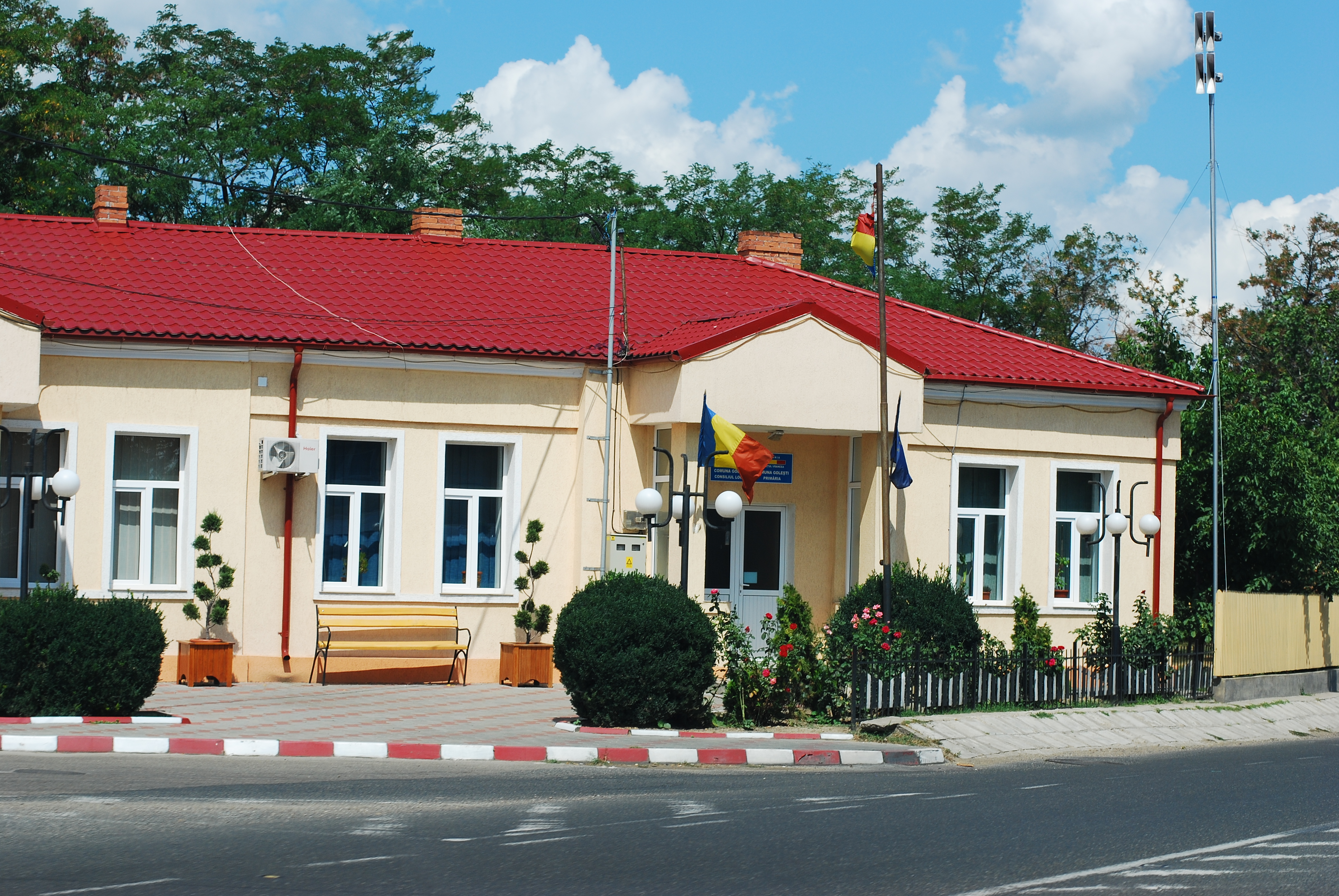 Goleşti, Vrancea, Romania town hall